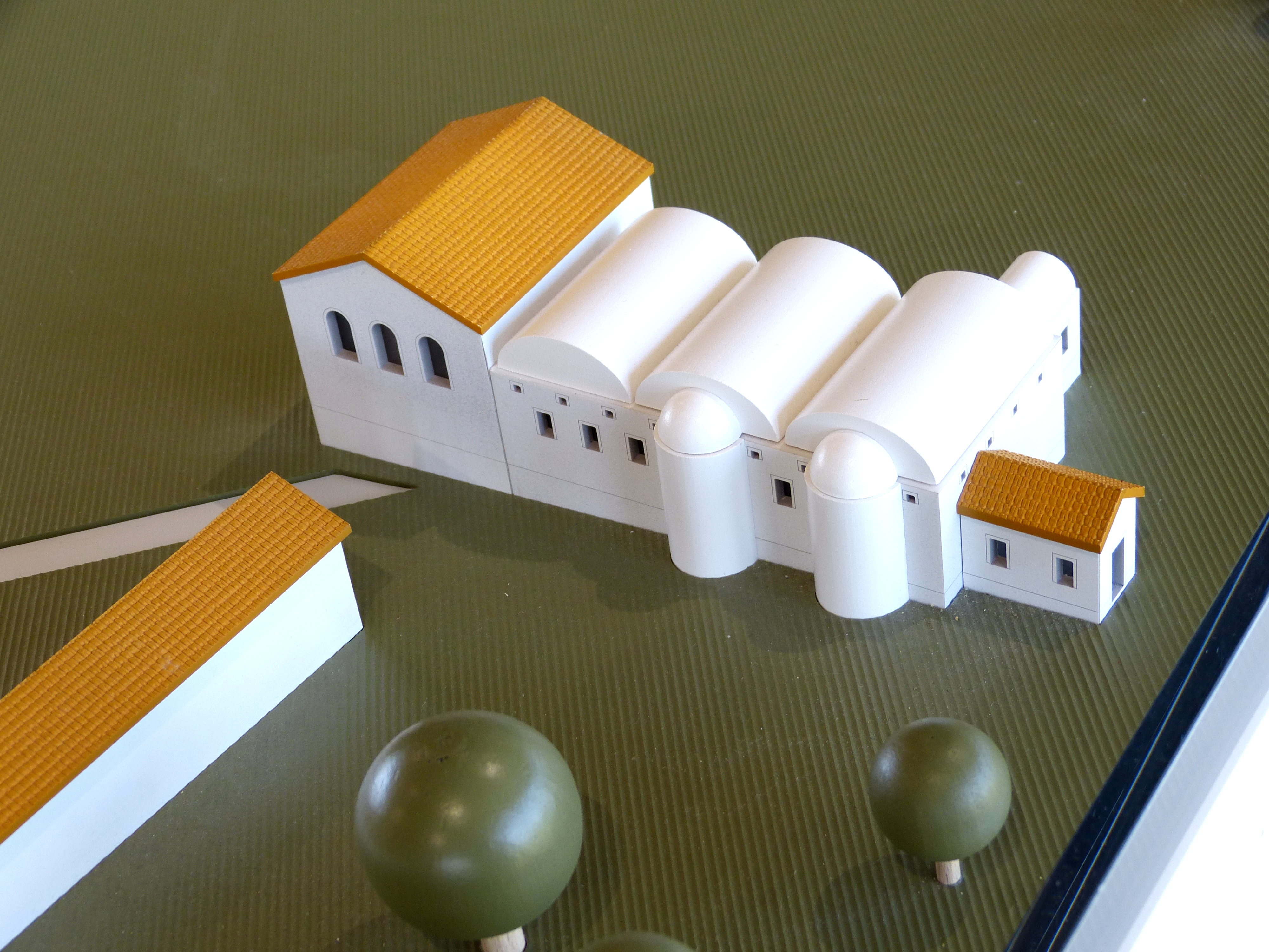 Weiltingen ( Bavaria ). Archaeological park Ruffenhofen: Limeseum - Model of the ancient Roman fort at Ruffenhofen - Thermae ( detail ).